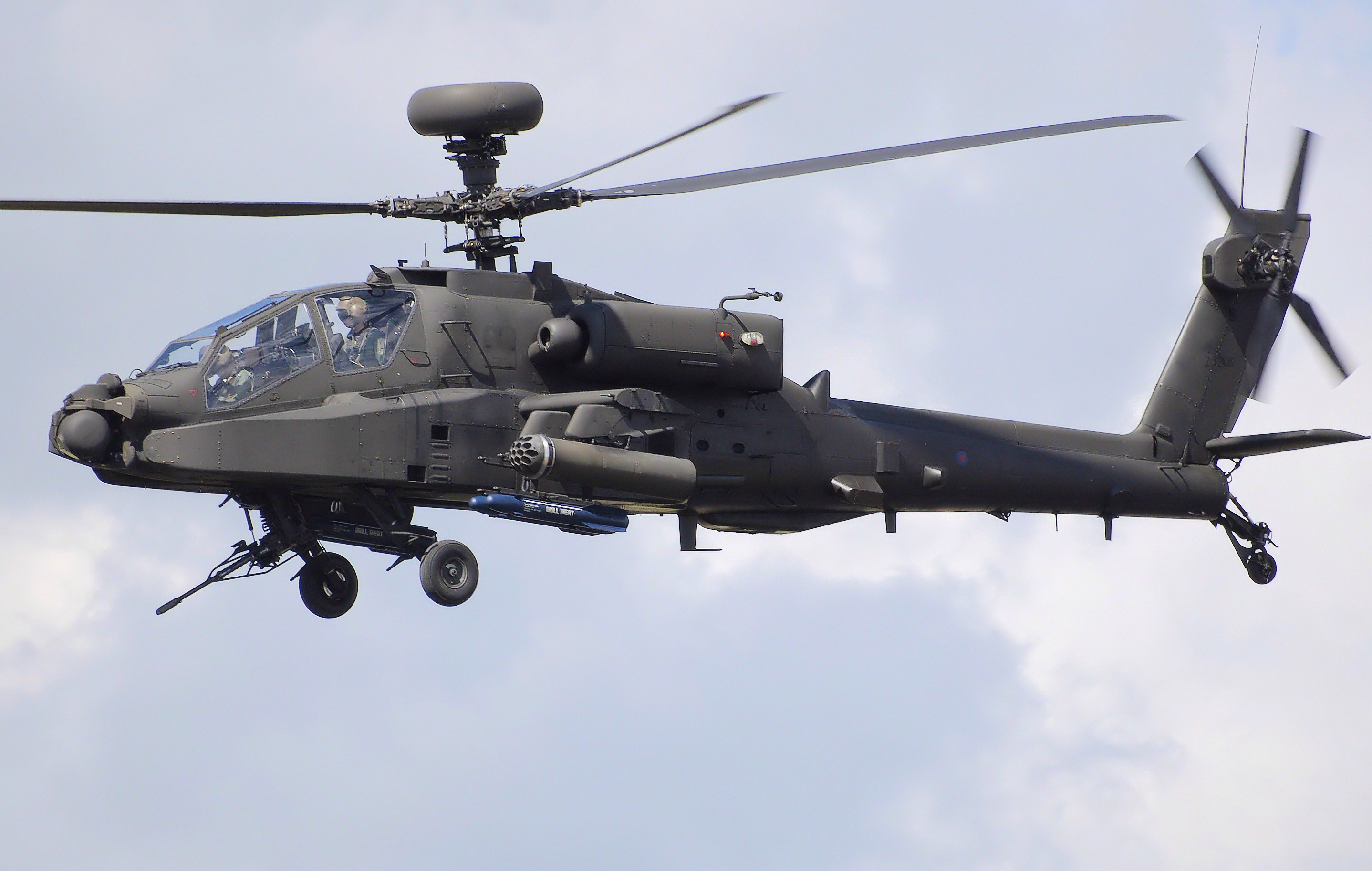 Westland Apache WAH-64D Longbow helicopter (UK Army registration ZJ206) displays at Kemble Air Day 2008, Kemble Airport, Gloucestershire, England.